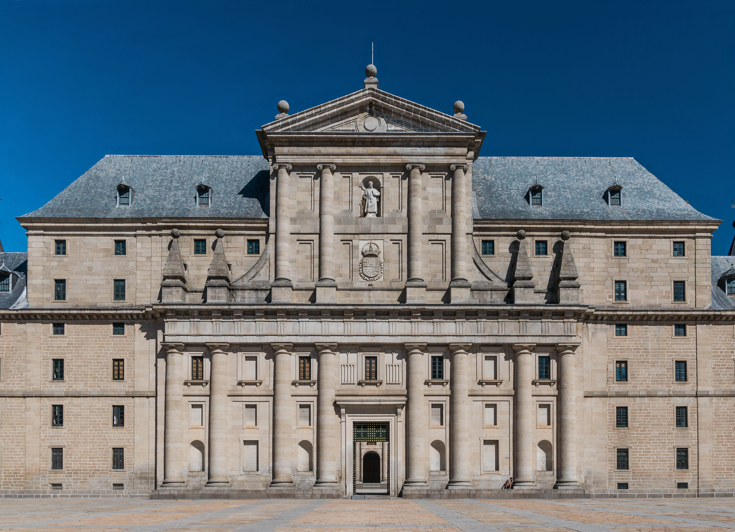 Monastery of Saint Lawrence, detail of the main facade, San Lorenzo de El Escorial, Spain.